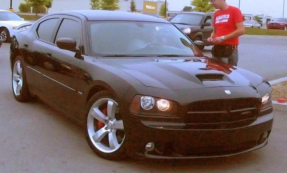 2006-2008 Dodge Charger SRT-8 photographed in Laval, Quebec, Canada at Les chauds vendredis.